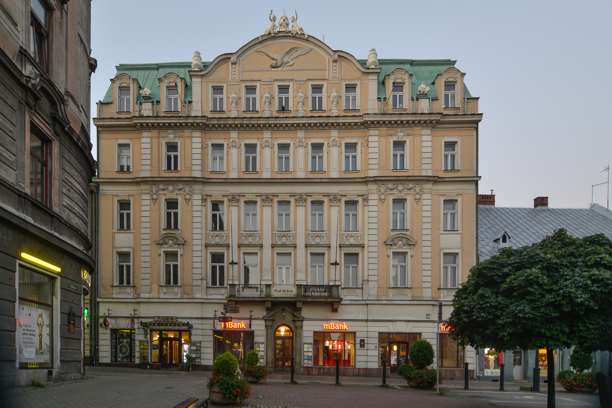 Hotel "Under the Eagle" in Bielsko-Biala, Poland